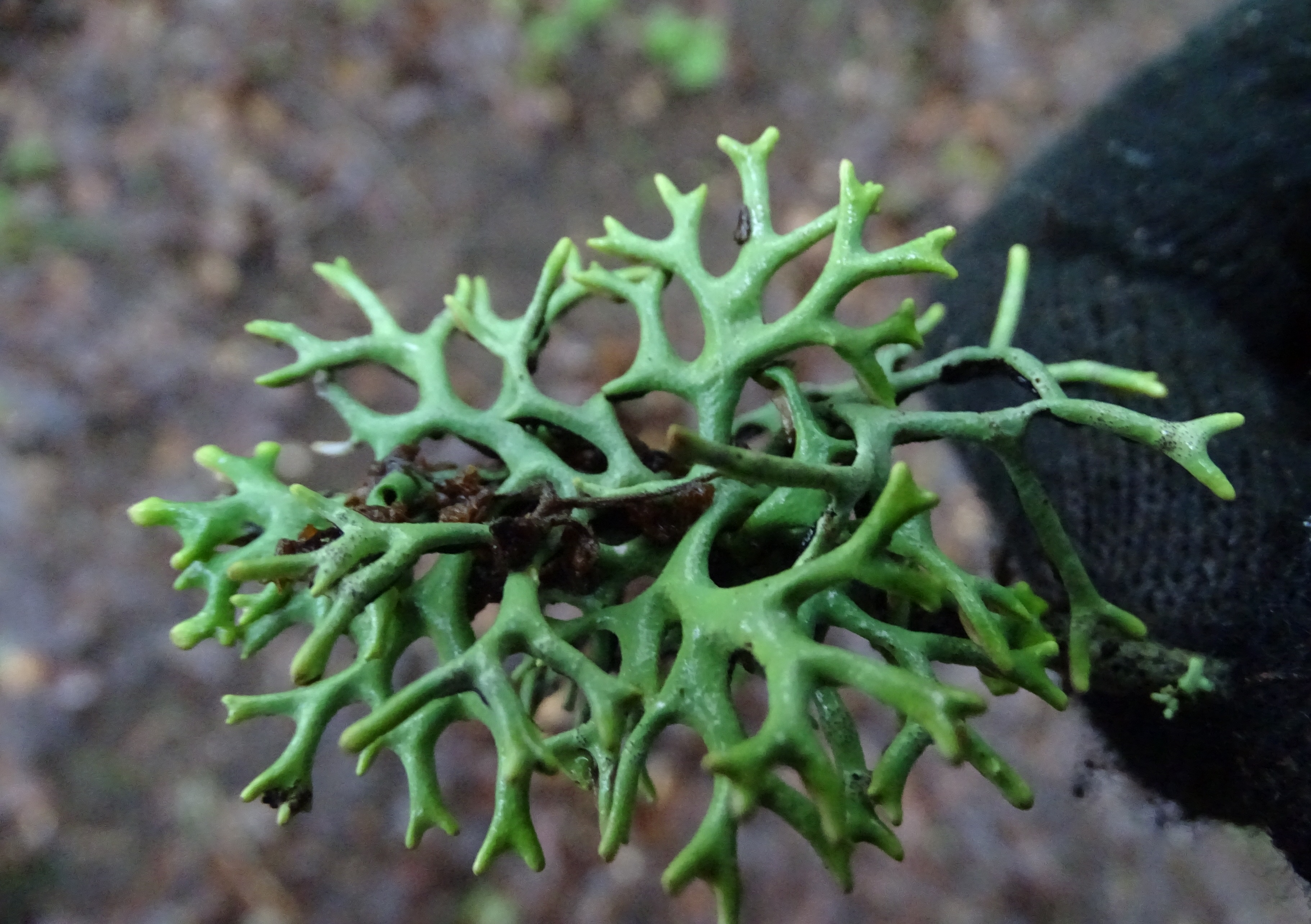 Hypogymnia inactiva (Krog) Ohlsson Image location: Russian Ridge Trail Open Space Preserve, San Mateo Co., California, USA Recognized by sight Used references: California Lichens For more information about this, see the observation page at Mushroom Observer.